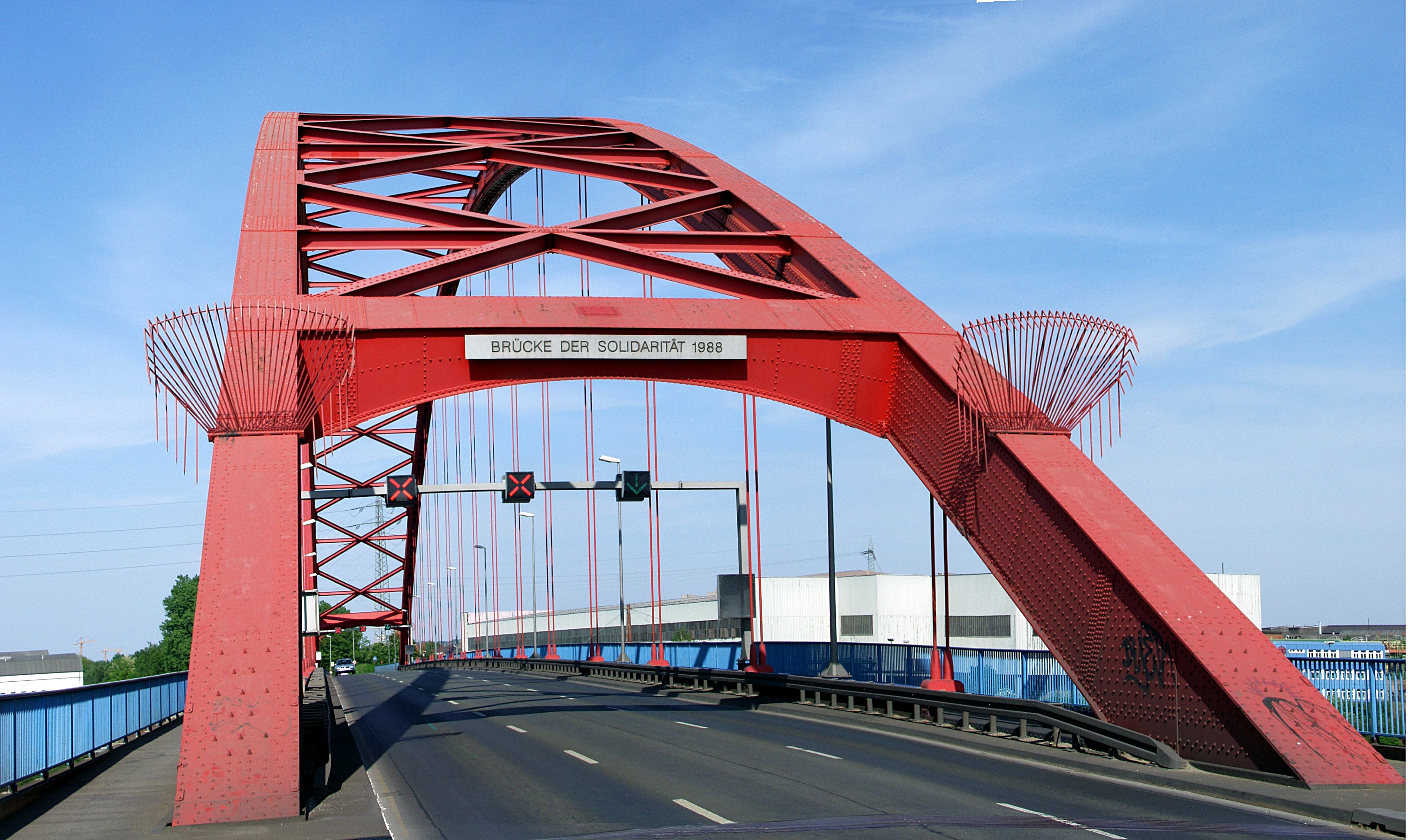 „Brücke der Solidarität“ (Bridge of solidarity) over the Rhine at Duisburg-Rheinhausen